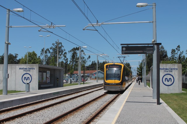 The Modivas Centro (Vila Chã) stop of the Metro do Porto